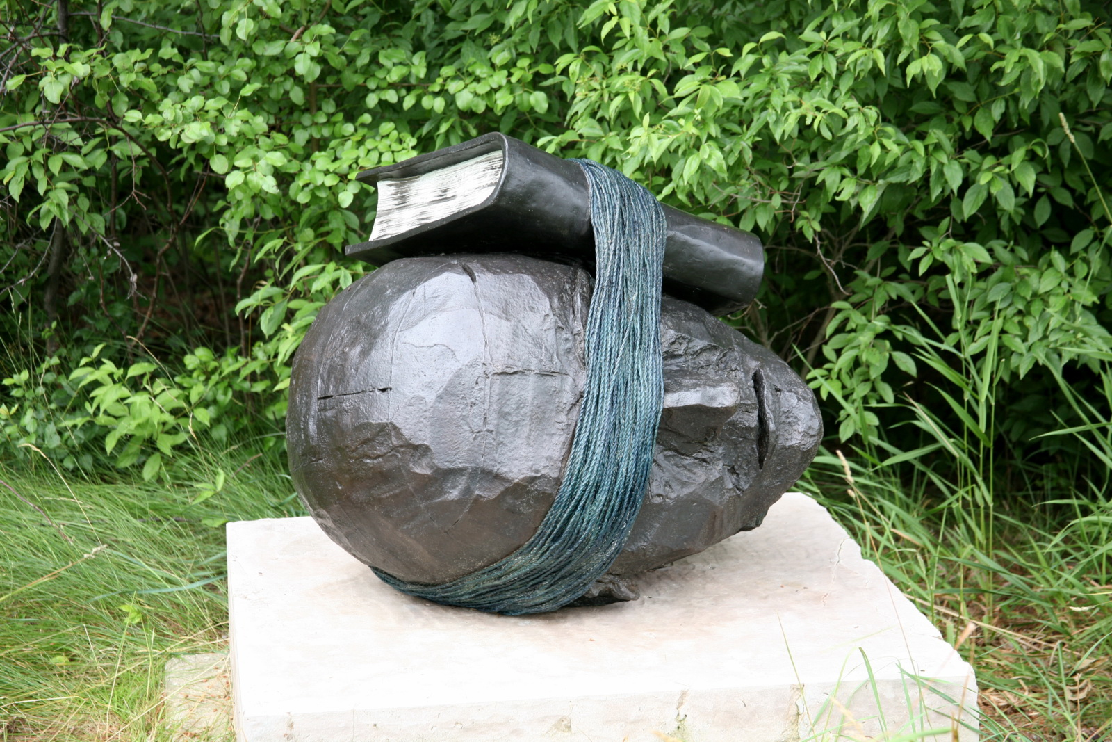 Bill Woodrow Listening to History, 1995 Bronze By Bill Woodrow